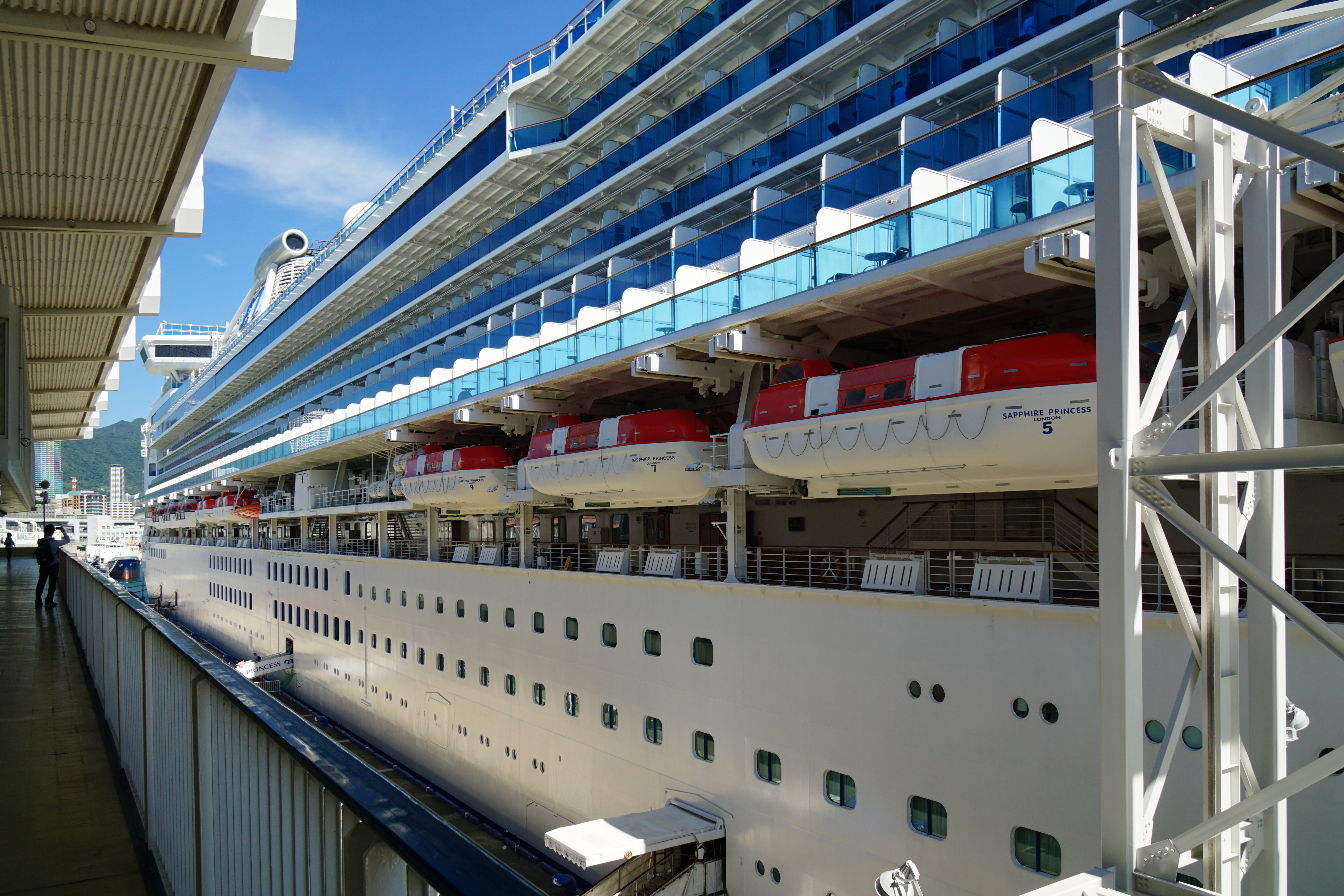 Sapphire Princess at the Kobe Port Terminal of Kobe Port, Kobe Hyogo prefecture, Japan.